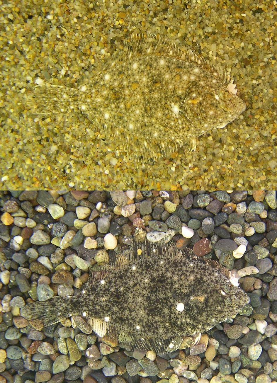 Two stone flounders (Kareius bicoloratus) blend into their environment by changing their color.